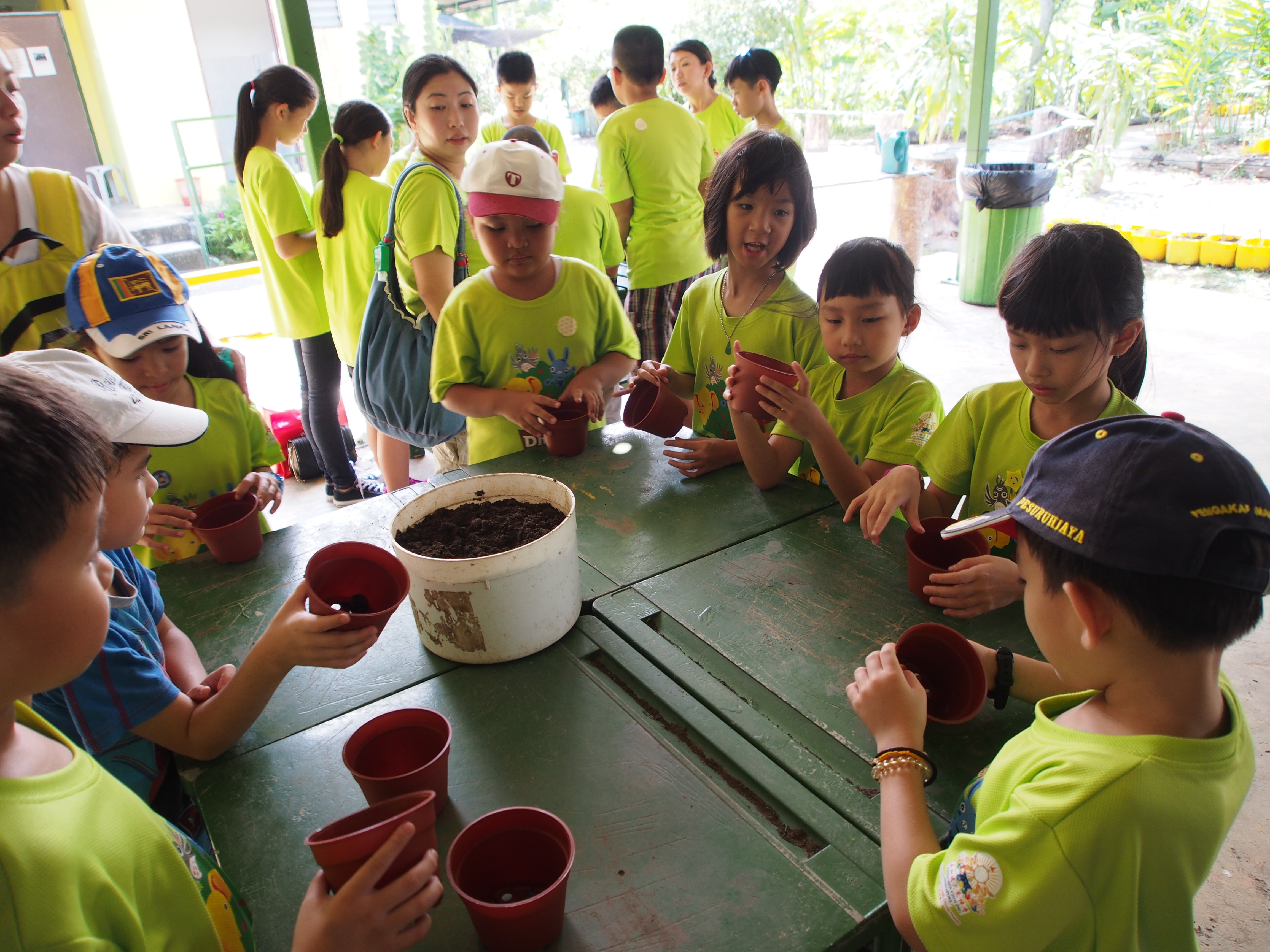 Children Enrichment Program